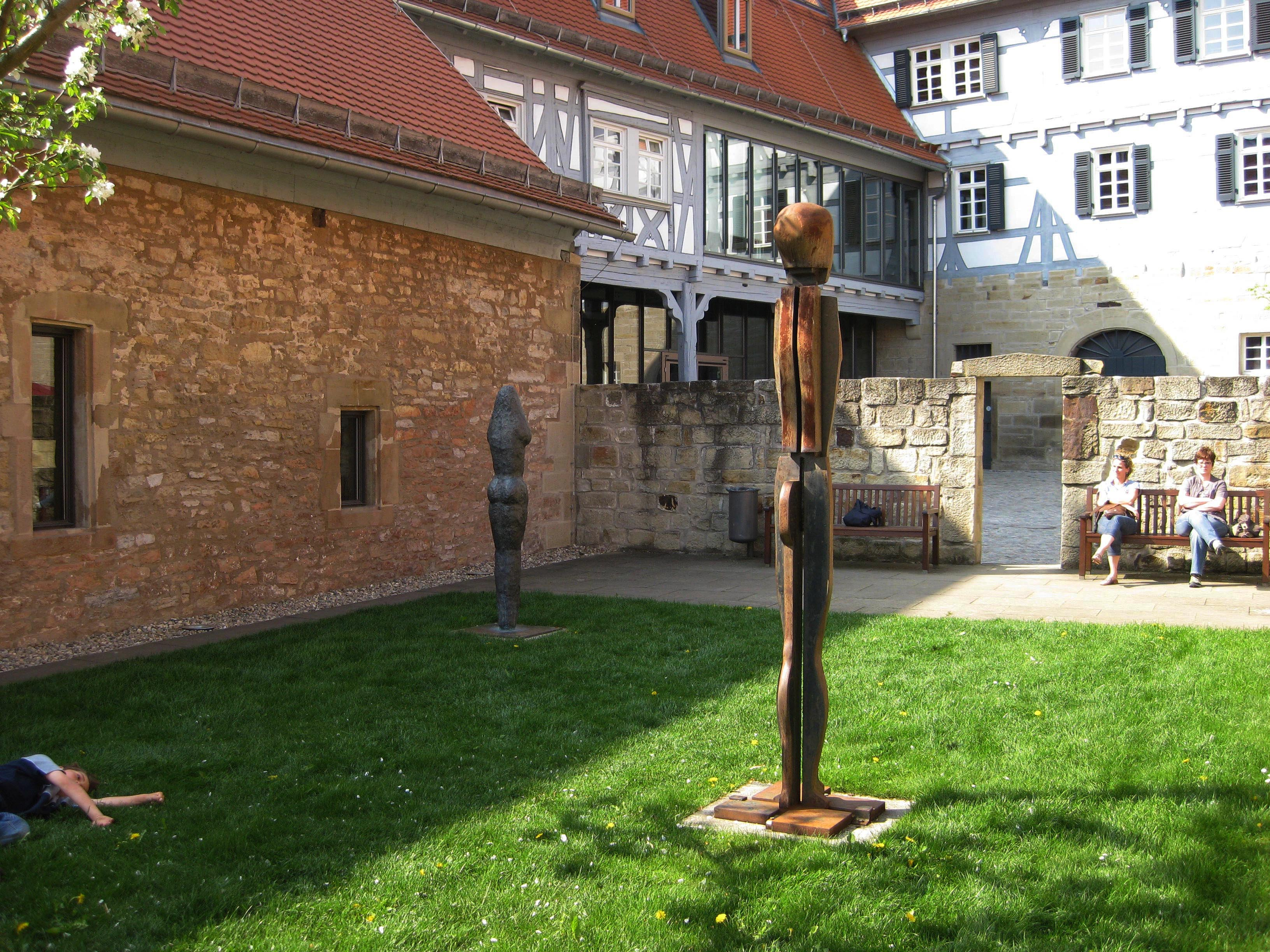 Sculptures in Bietigheim, Germany, Baden-Wuerttemberg, Max Schmitz, Conformation Mensch, 1983-85